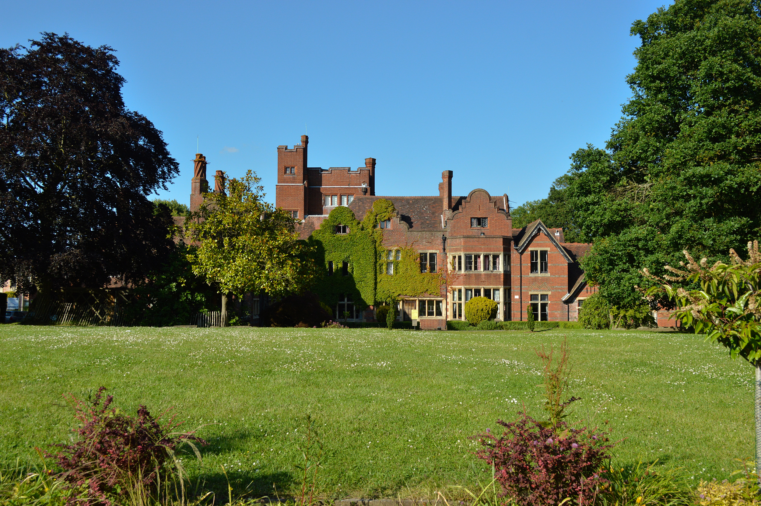 Moor Close, Newbold College, Binfield